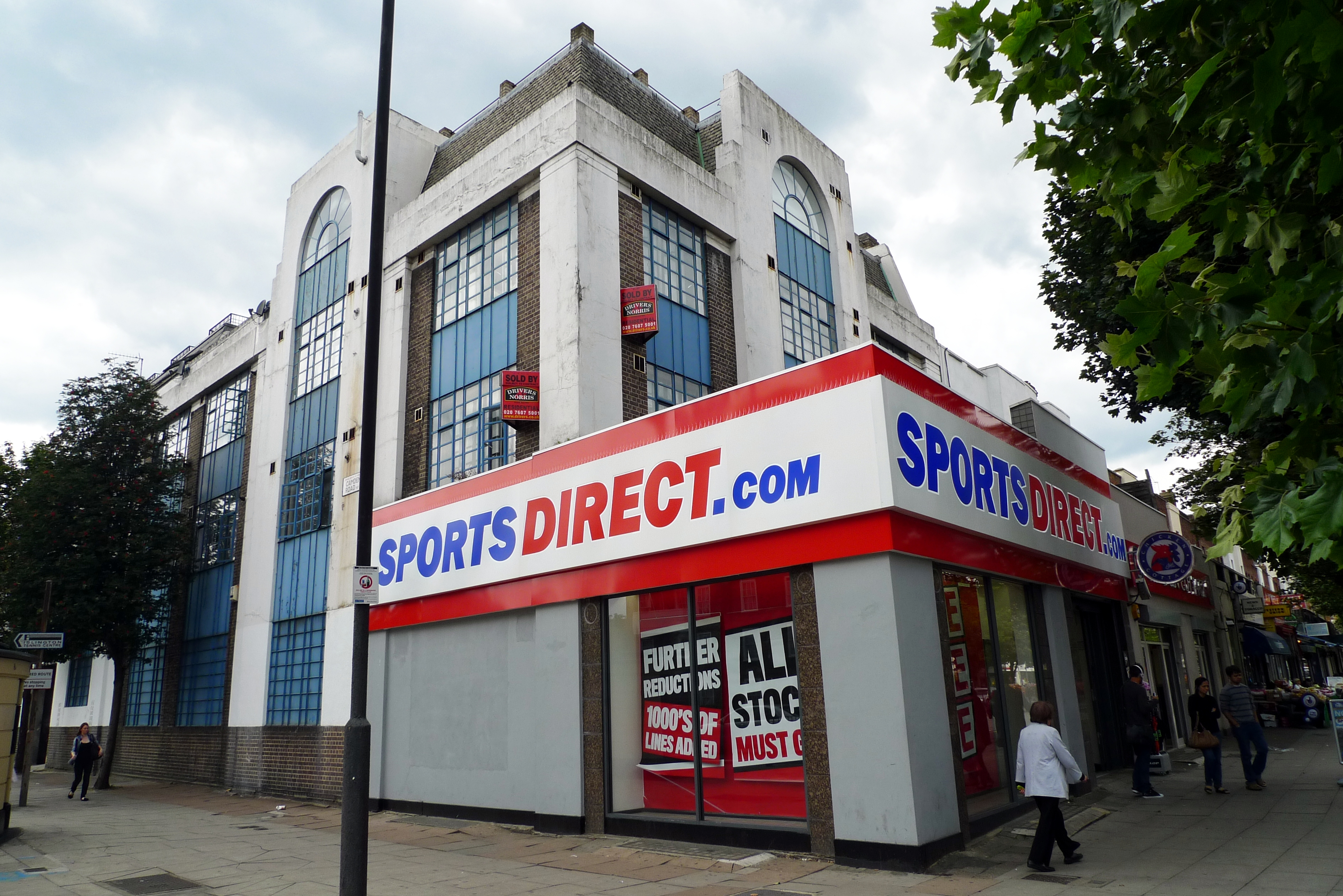 A formerly rather uninspiring pub halfway up Holloway Rd. It's now a Sports Direct shop. (Photos of it as The Holloway and of The Litten Tree pub name.)